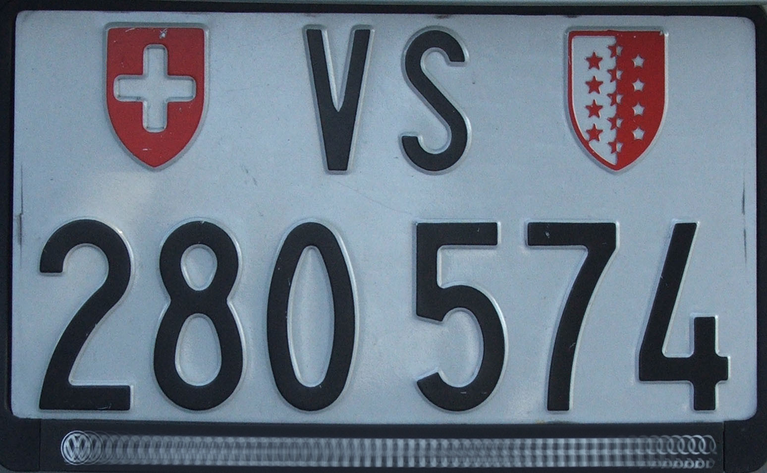 Vehicle licence plate from Switzerland as seen in 2007 - american size and shape. "VS" stands for Valais canton.